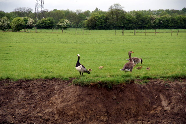 Riverbank near Cassington Canal A family of geese on an eroding bank of alluvium.